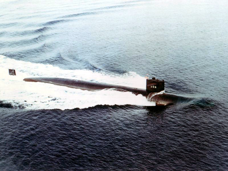 USS Permit (SSN-594) official Navy photo. 594